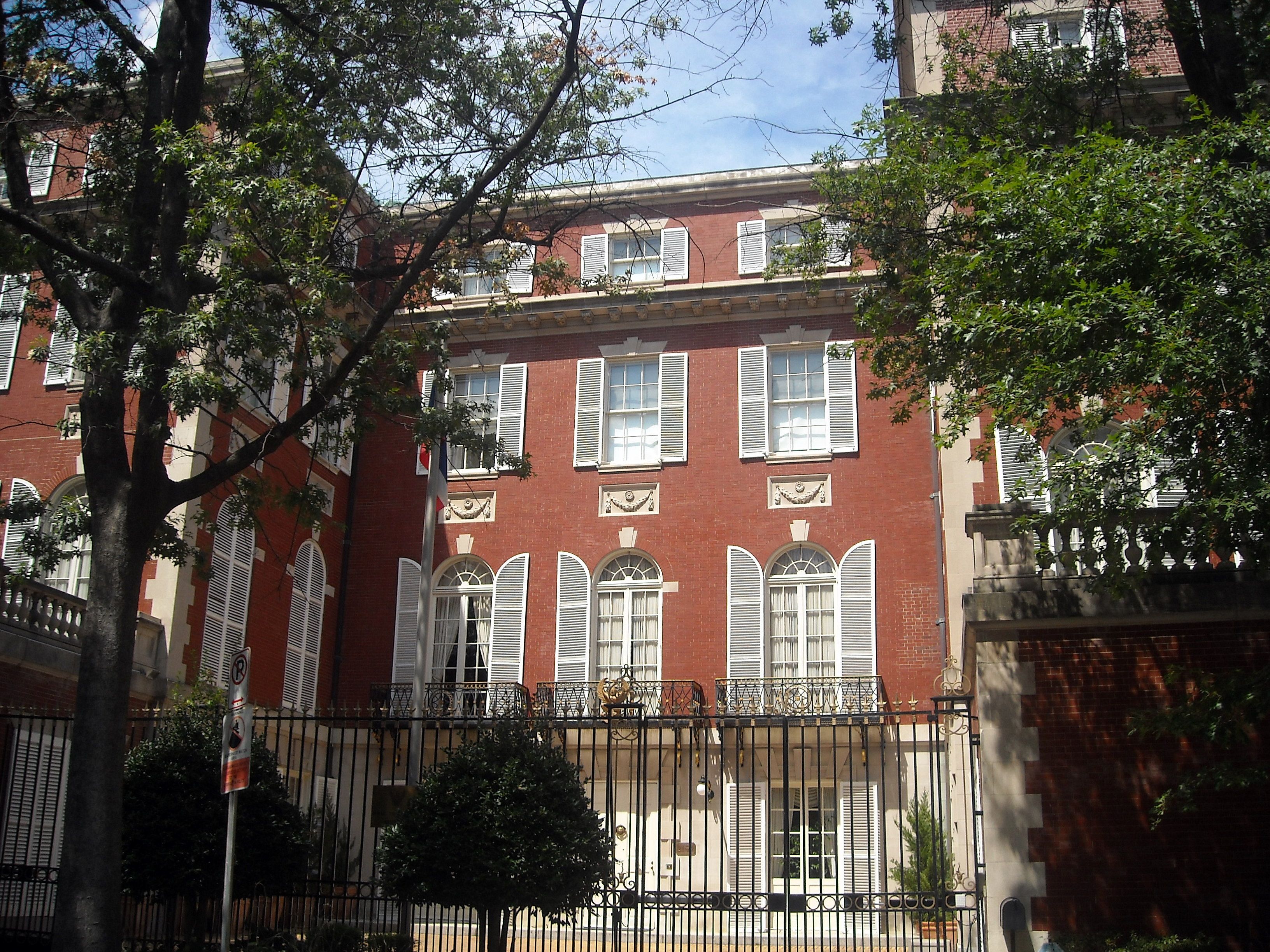 Codman-Davis House, also known as the Louise Home, at 2145 Decatur Place in Washington, D.C. The building is now used as the Thailand's ambassador residence and is listed on the National Register of Historic Places.